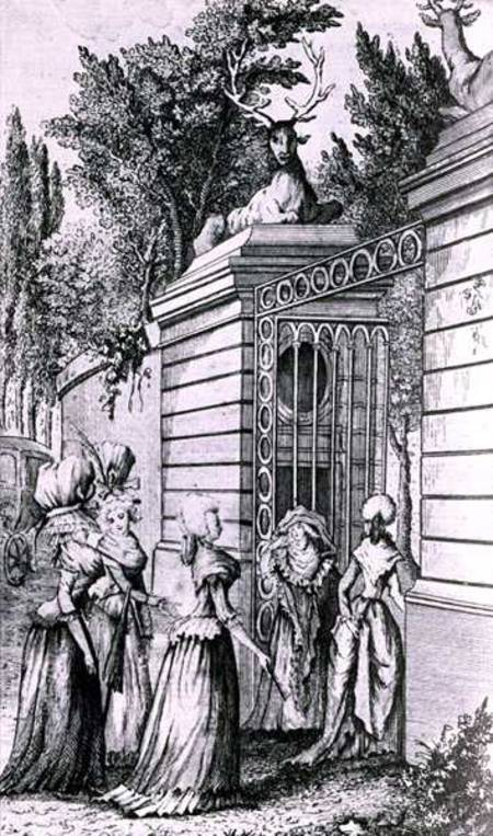 Le Parc aux Cerfs, the Gateway to the 'Royal Haven' of Louis XV (1710-74), managed by Madame de Pompadour (1721-64) (engraving) by French School, (19th century) engraving Private Collection French, out of copyright